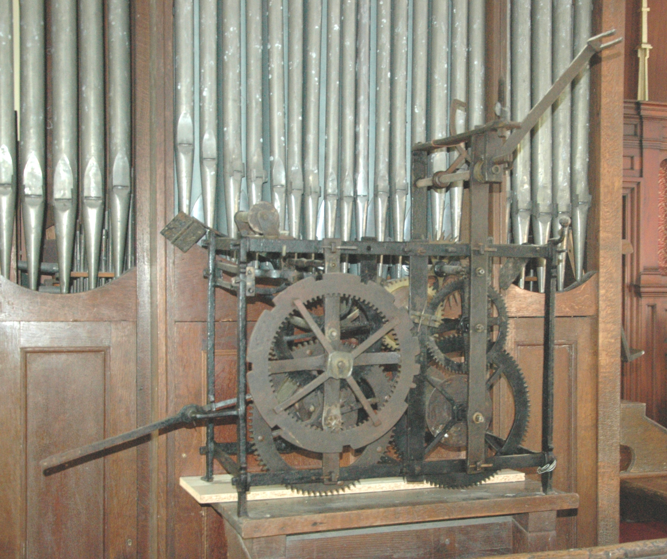 Church of England parish church of St Swithun, Merton, Oxfordshire: late 17th century turret clock with iron bar frame